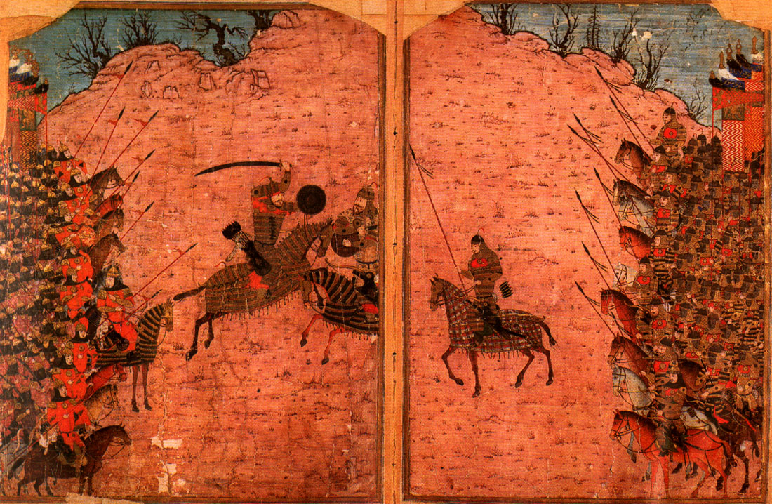 Episode from a Battle between the Iranians and the Turanians Shah-nama. From the Sarai Albums Tabriz, second half of 14th century Hazine 2153, folio 52b-53a